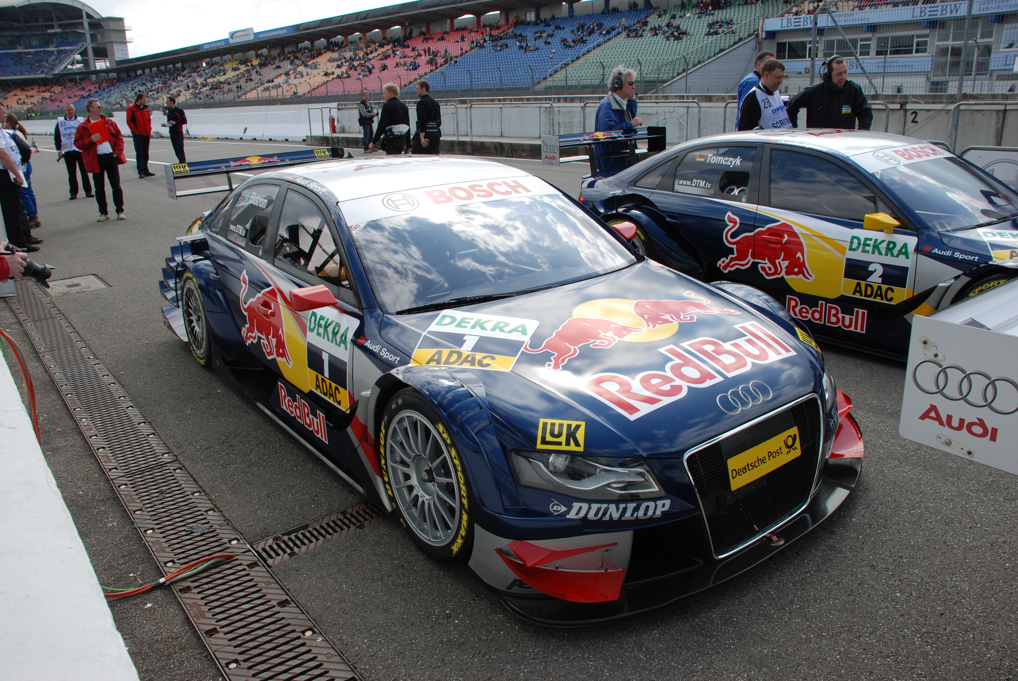 DTM-Audi-A4 V8, 2008